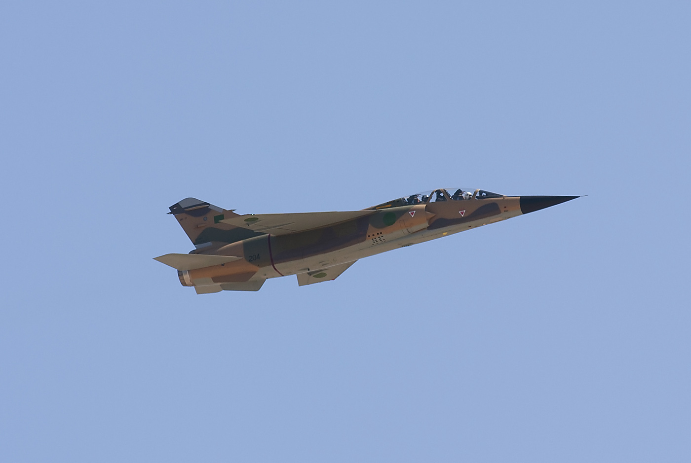 The only twoseater in service in 2009.